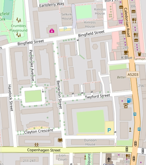 Bemerton Street map August 2017.